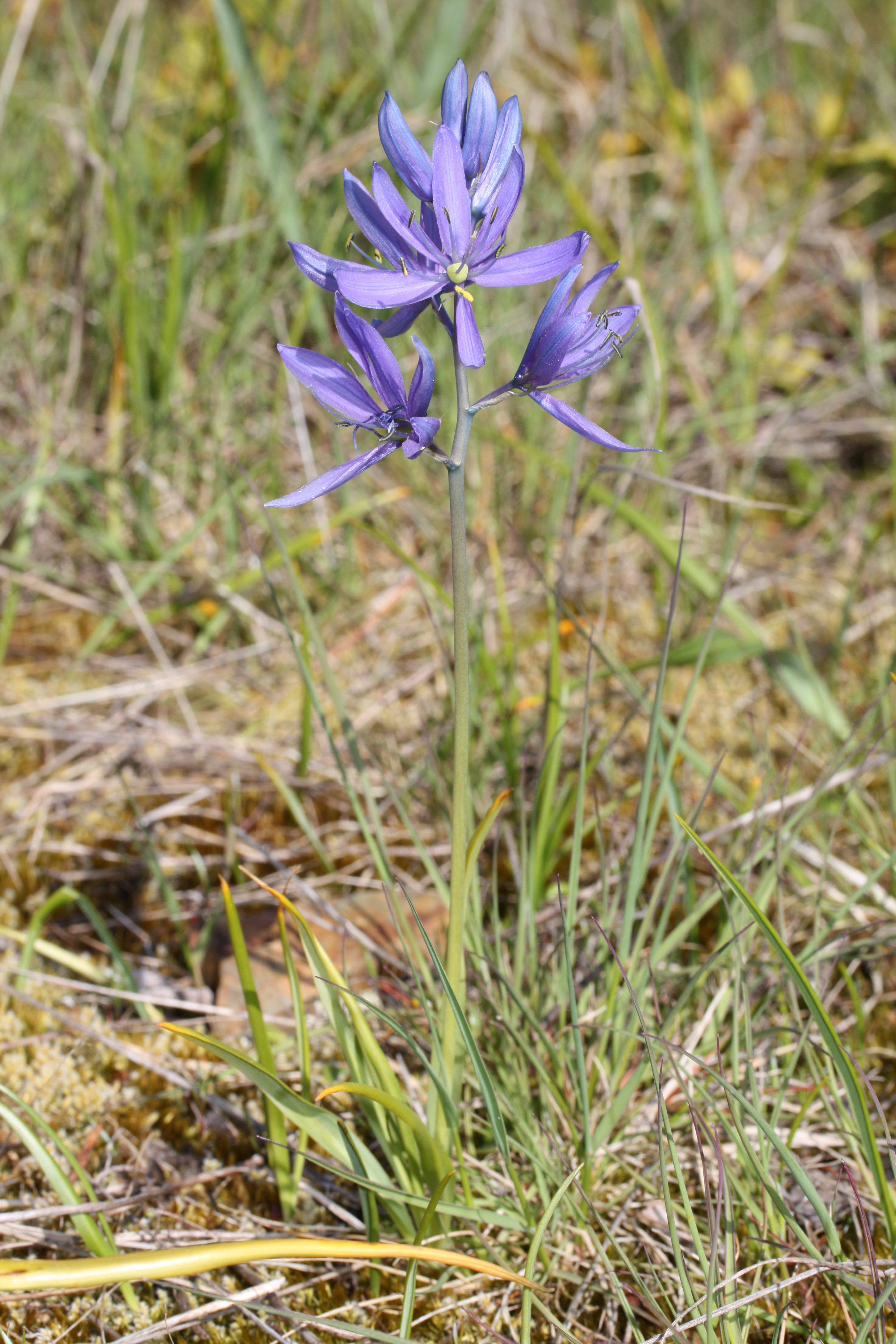 Common Camas